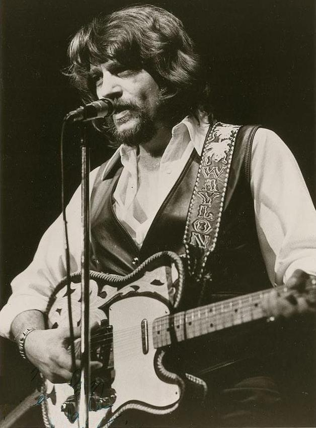 Waylon Jennings publicity picture for RCA Records